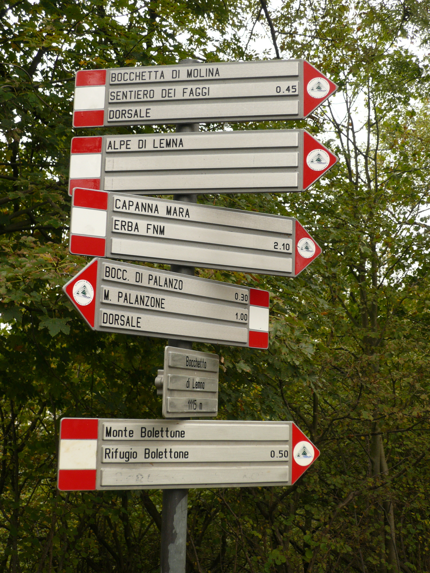 Hiking route signs near Lake Como